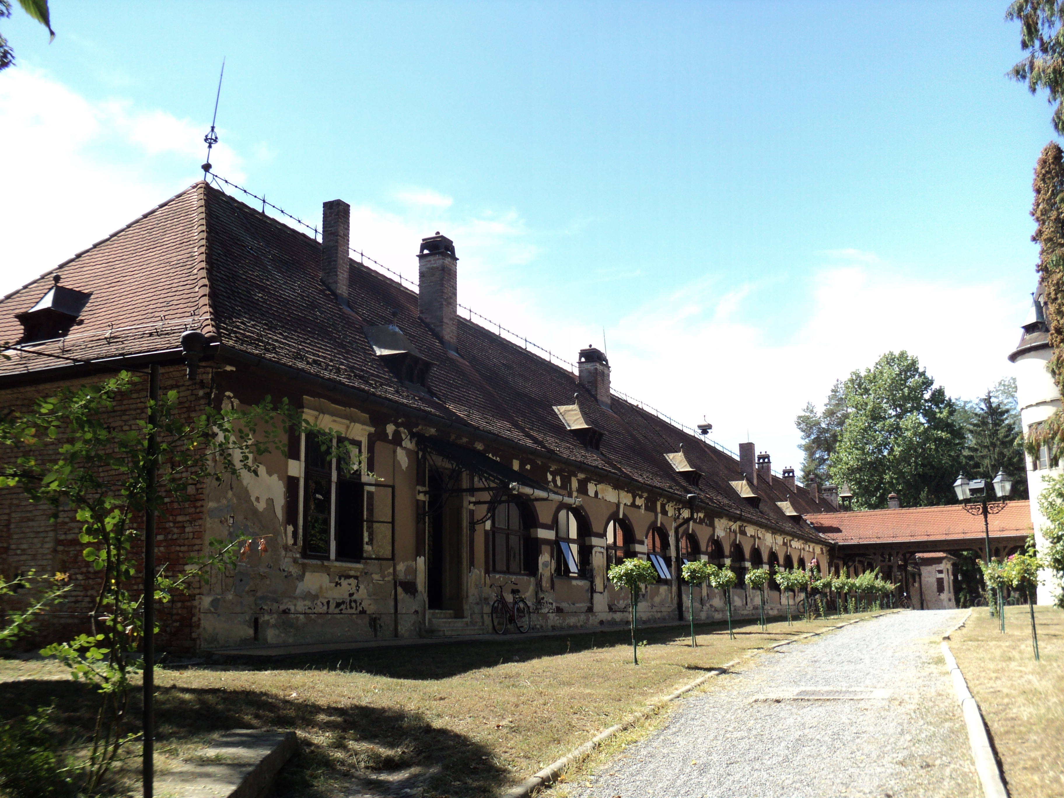 View at the Prandau castle in Donji Miholjac.